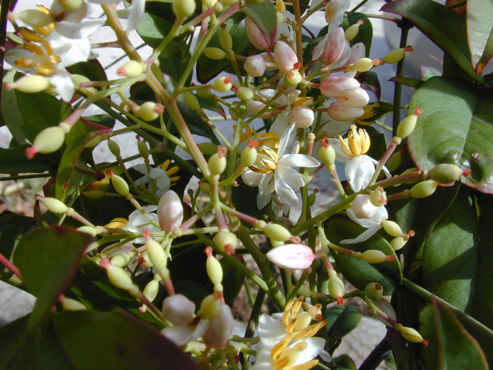 Nandina domestica (flowers). Location: Maui, Wailuku